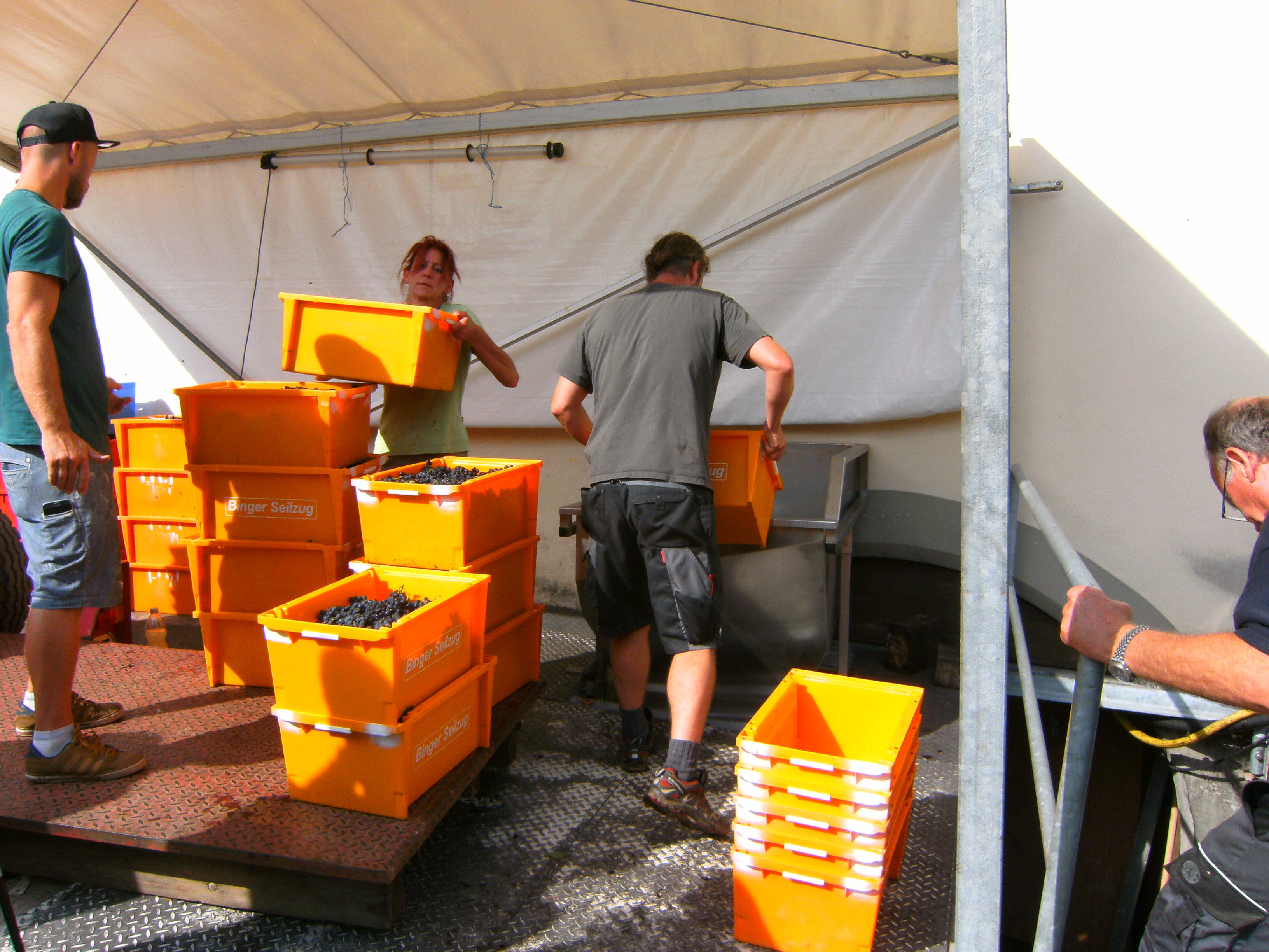 Reichenau Island: Grapes coming in to the winecooperative Reichenau (Winzerverein Reichenau).